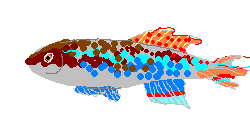 Draft of Fundulopanchax sjostedti ("Blue gularis") killifish Identification Problem: File has been named Fundulopanchax gularis with a description Fundulopanchax gularis User:67.142.130.47 changed the description for Fundulopanchax sjostedti (common name Blue gularis)